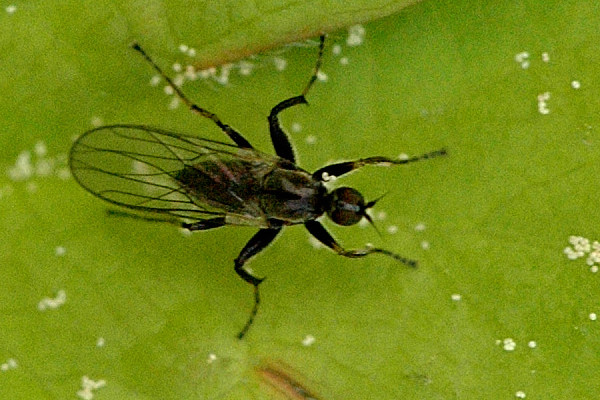 Picture taken in Commanster, Belgian High Ardennes . Species: Platypalpus minutus